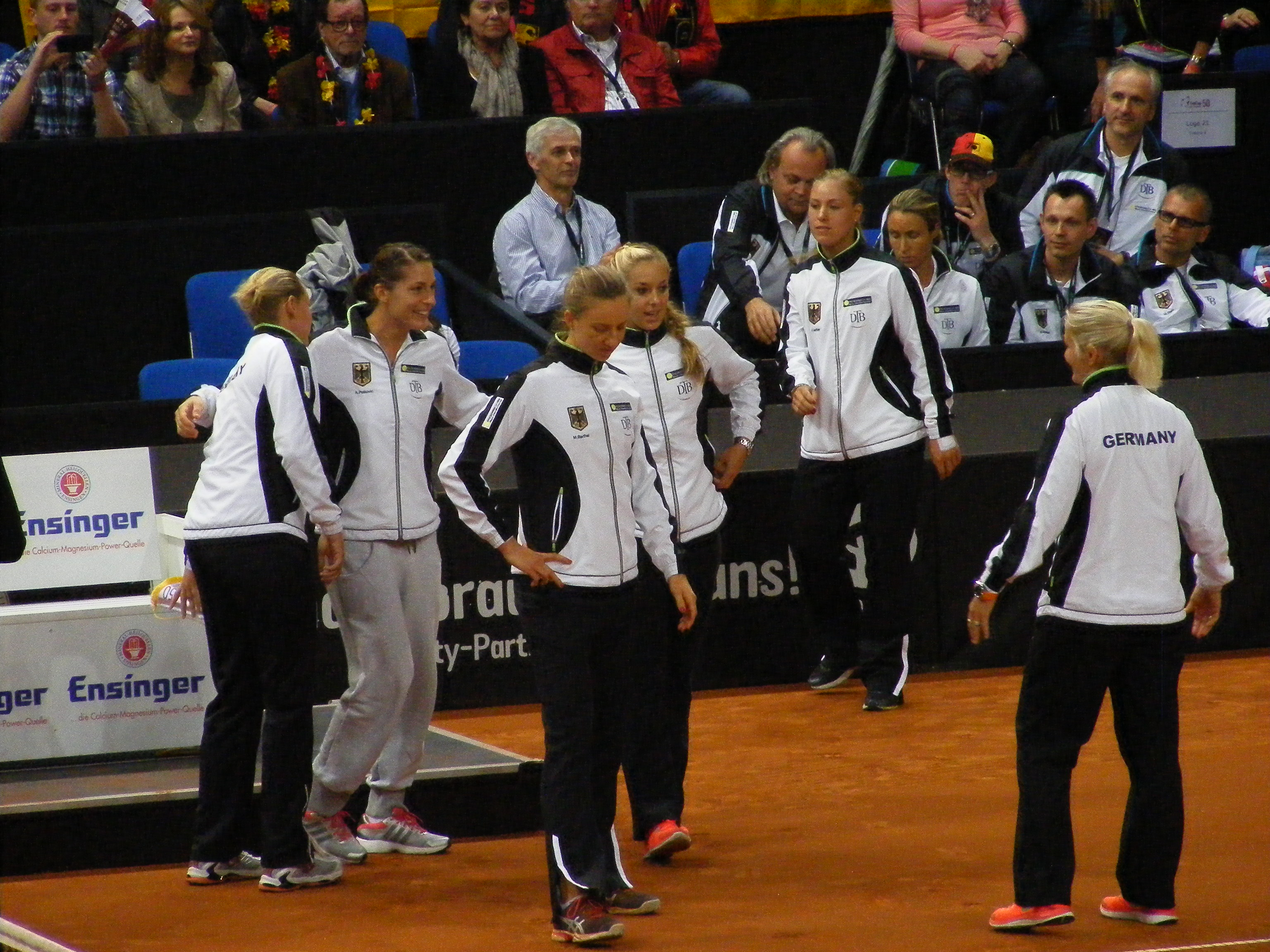 German Team Fed Cup 2013 Germany vs Serbia